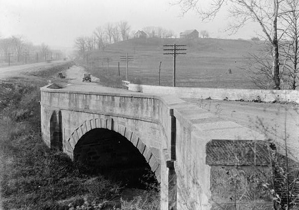 S Bridge, National Road — west of Cambridge, Cambridge vicinity, Guernsey County, Ohio. 1933 image: HABS—Historic American Buildings Survey of Indiana (cropped).